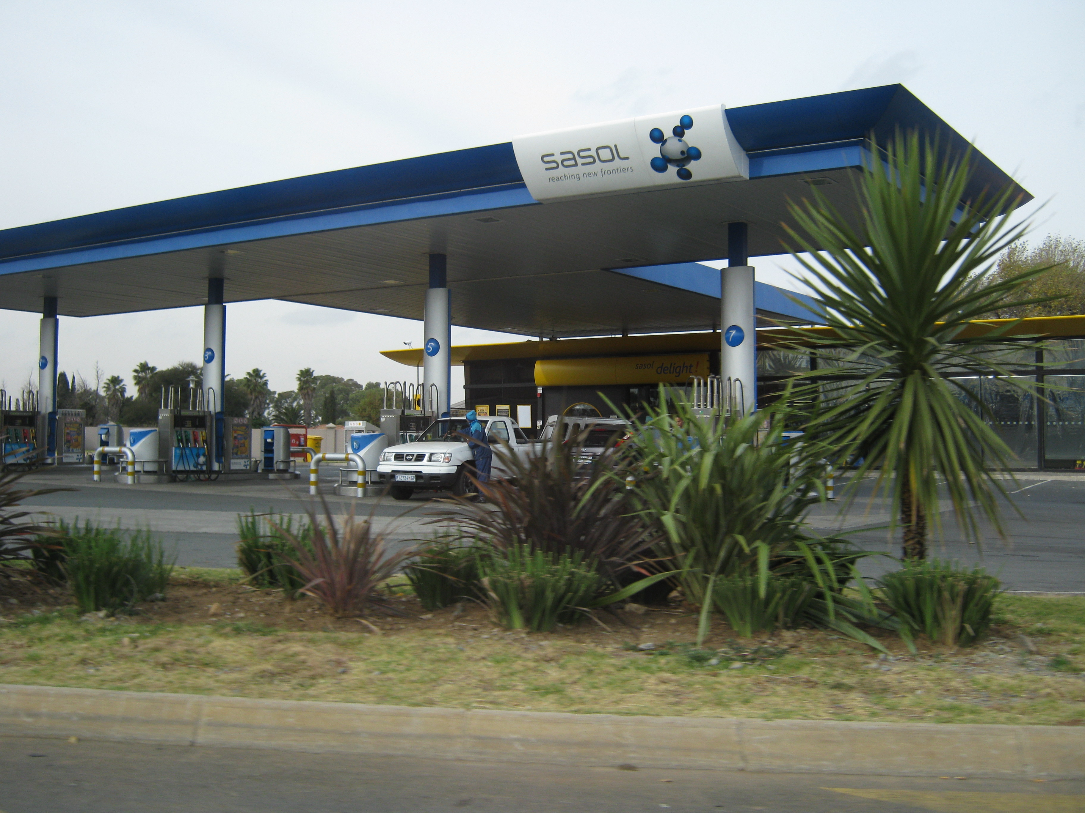 A Sasol Petrol Station in Boksburg